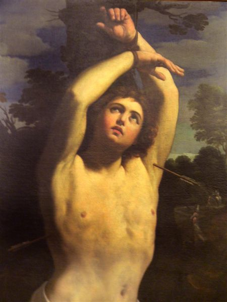 St. Sebastian (detail) by Guido Reni